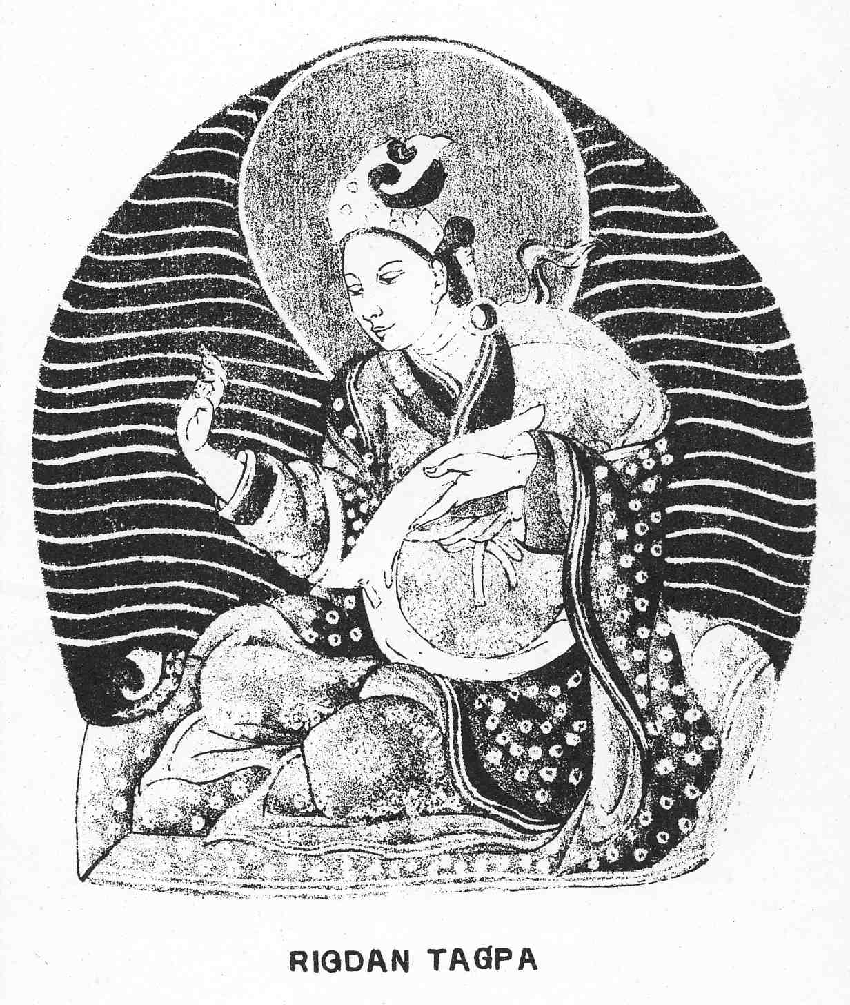 Image taken from a publication by Sarat Chandra Das (1849-1917), "Contributions on Tibet", in the Journal of the Asiatic Society of Bengal Vol. LI (1882), so it is in the public domain. John Hill 22:19, 25 September 2007 (UTC)